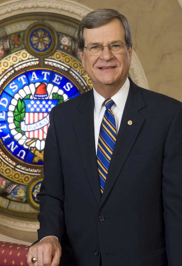 Official photo of Trent Lott, Senator from Mississippi, in 2007.